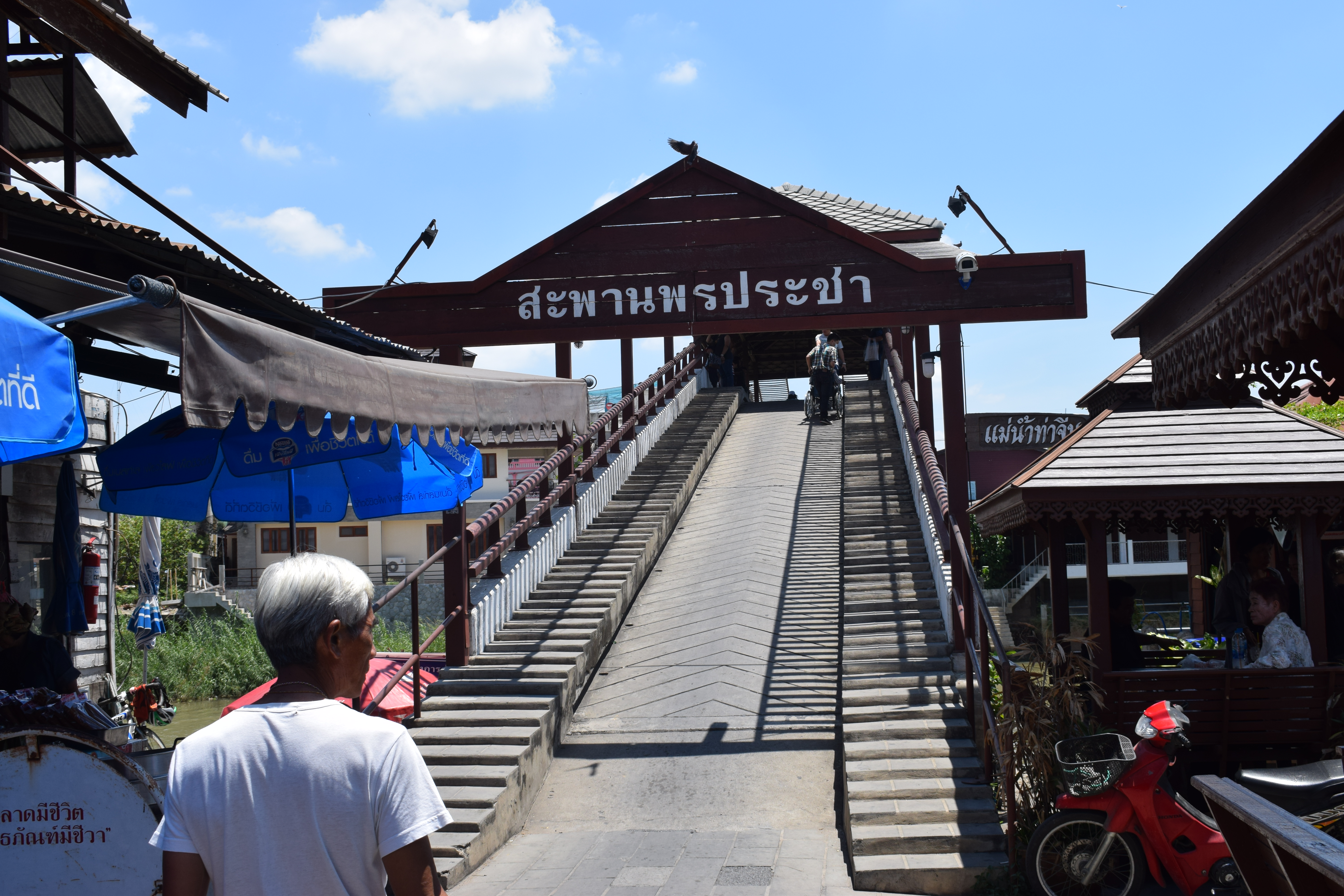 Bridge at the 100-year old market, Sam Chuk District, Surap Buri Province, Thailand.